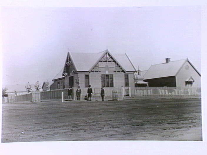 Description: Building of Concordia College at its original site in Murtoa, Victoria, ca.1890s.